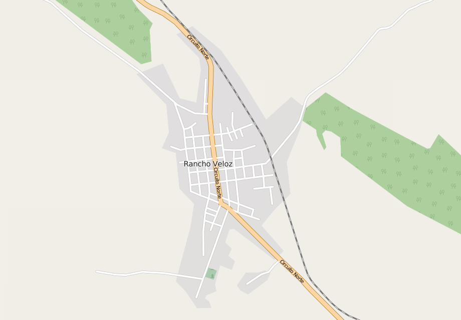 This map may be incomplete, and may contain errors. Don't rely solely on it for navigation.